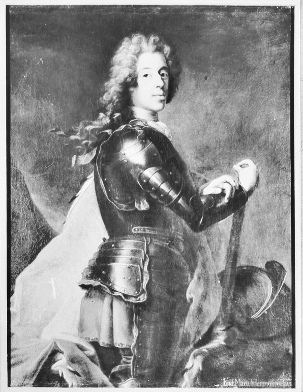 Ferdinand Maria Innozenz von Bayern (1699-1738)